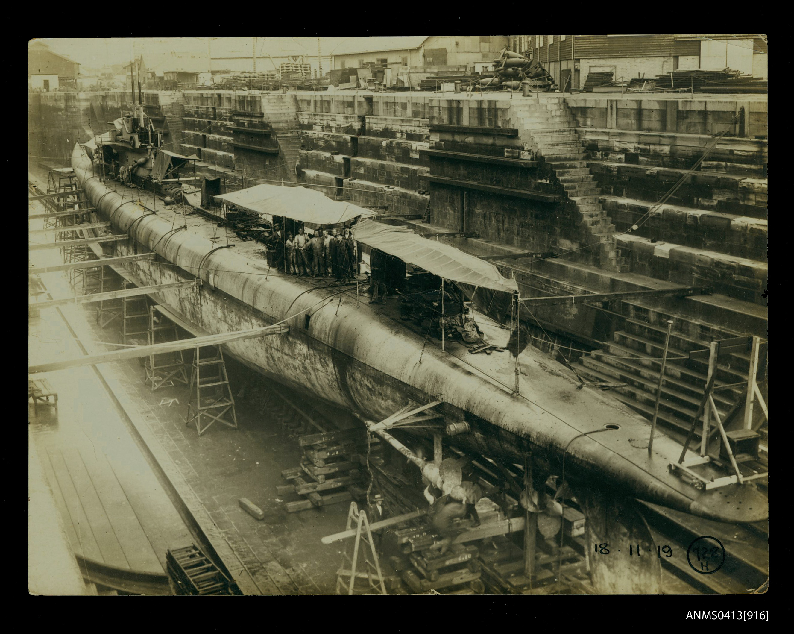 This image was probably taken by the dockyard photographer as it appears very similar to other images of the same date and location. (See J C Jeremy, 'Safe to Dive', p 13 2005). Handwritten inscription in black ink reads: "18.11.19 728H". Inscription stamped in purple ink on the reverse reads: "Commonwealth Naval/ Dockyard./Cockatoo Island./ Nov 21 1916/ photographs department." Photographer: Unknown Object no. ANMS0413[916]